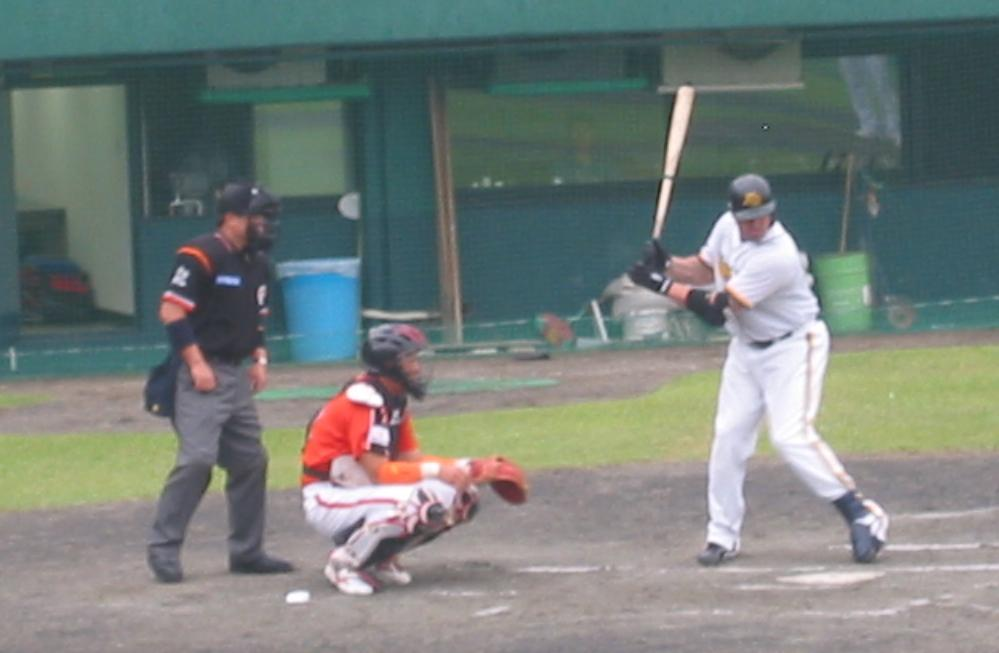 Self-taken by User:Deiz. Cliff Brumbaugh playing for the Hyundai Unicorns. 15:14, 9 June 2007 . . Deiz . . 999×653 (54,287 bytes)